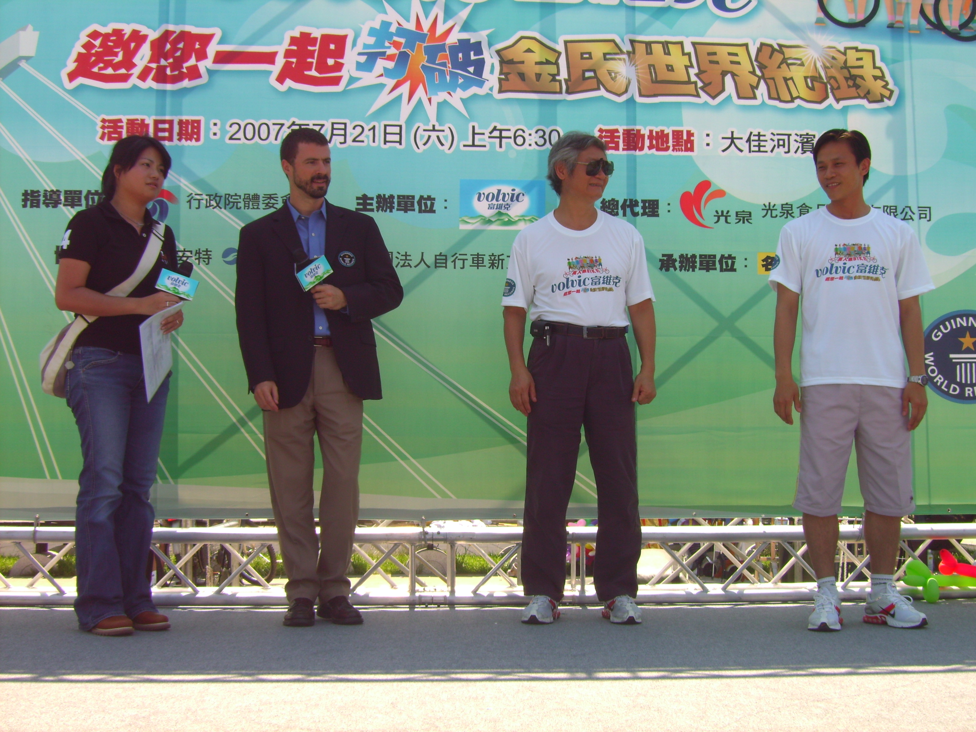 Witnesses of "2007 Ten Thousand People for BIKE" Guinness World Record Challenge.